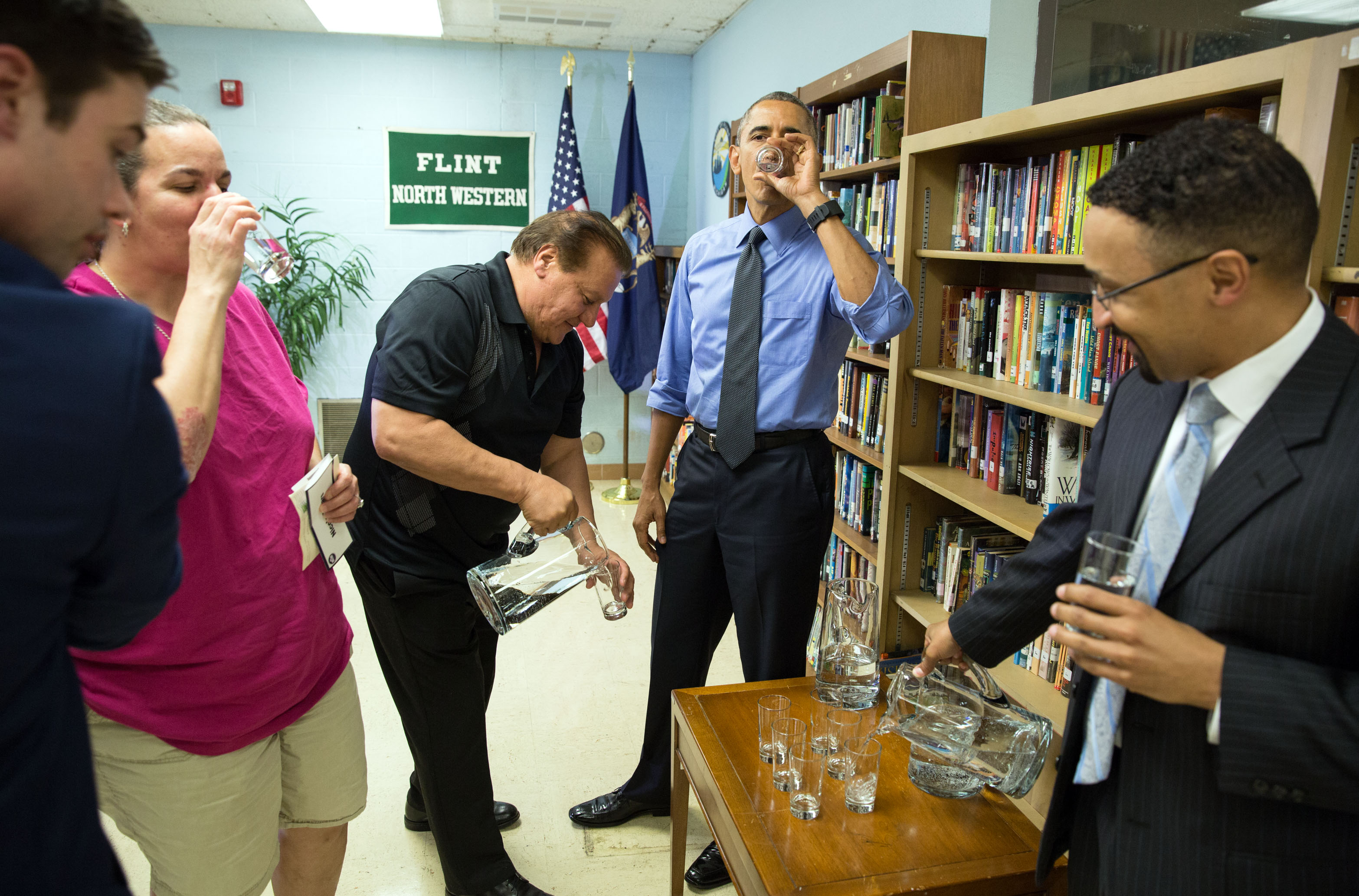 President Barack Obama sips filtered water from Flint following a roundtable on the Flint water crisis at Northwestern High School in Flint, Mich., May 4, 2016.in Flint, Mich., May 4, 2016. (Official White House Photo by Pete Souza)